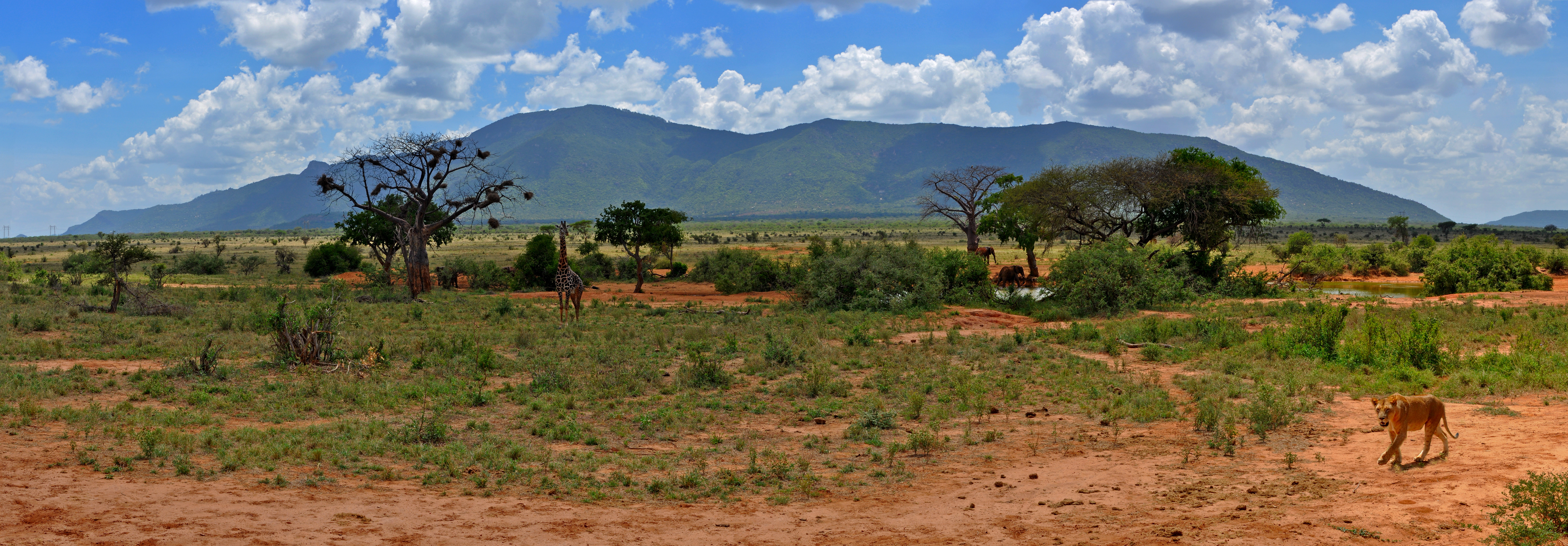 Tsavo East National Park panorama. You can see giraffes, elephants and lion.